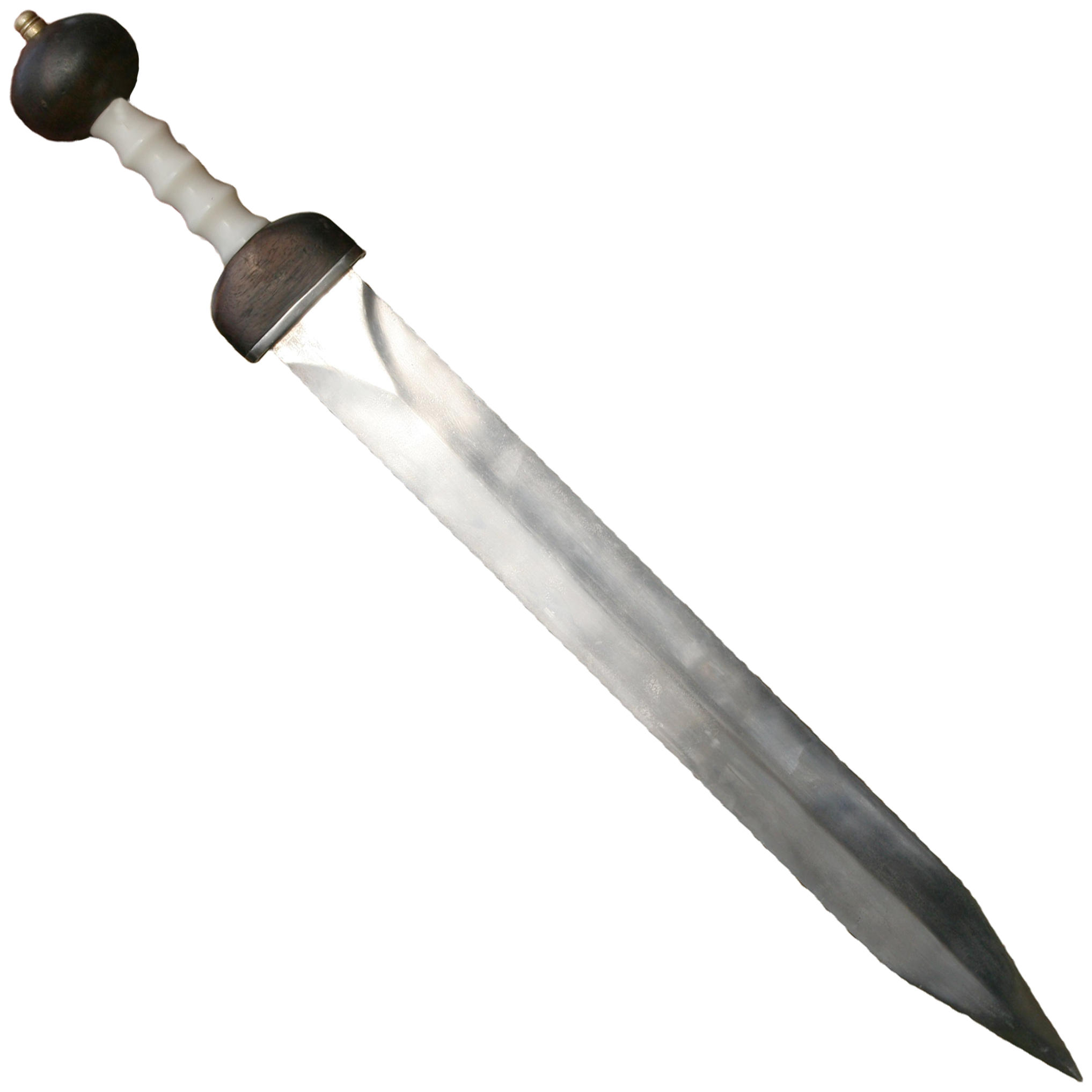 Roman gladius, type Pompeji (Although common in modern replicas of the gladius, there is no evidence for actual Roman swords having a little triangle on the blade near the guard as shown in this image. This image should be avoided on any page dealing with Roman weapons.)